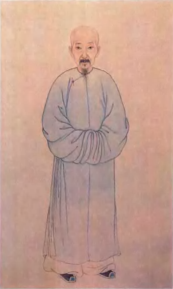 Portrait of Liu Yong.